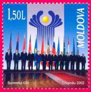 Stamp of Moldova, CIS summit in Kishinev, 2002.